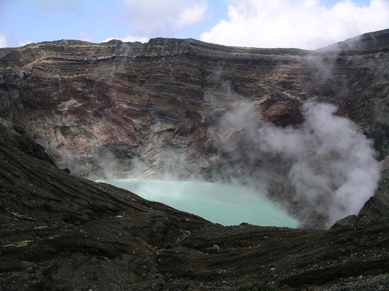 The steaming crater of Mount Naka in the Aso Caldera